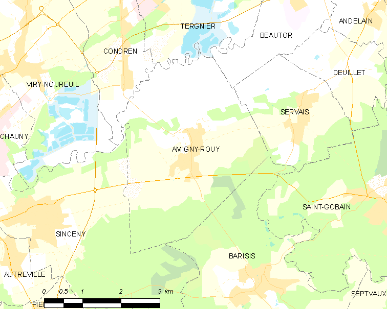 Map of French commune: Amigny-Rouy Map commune FR insee code 02014.png